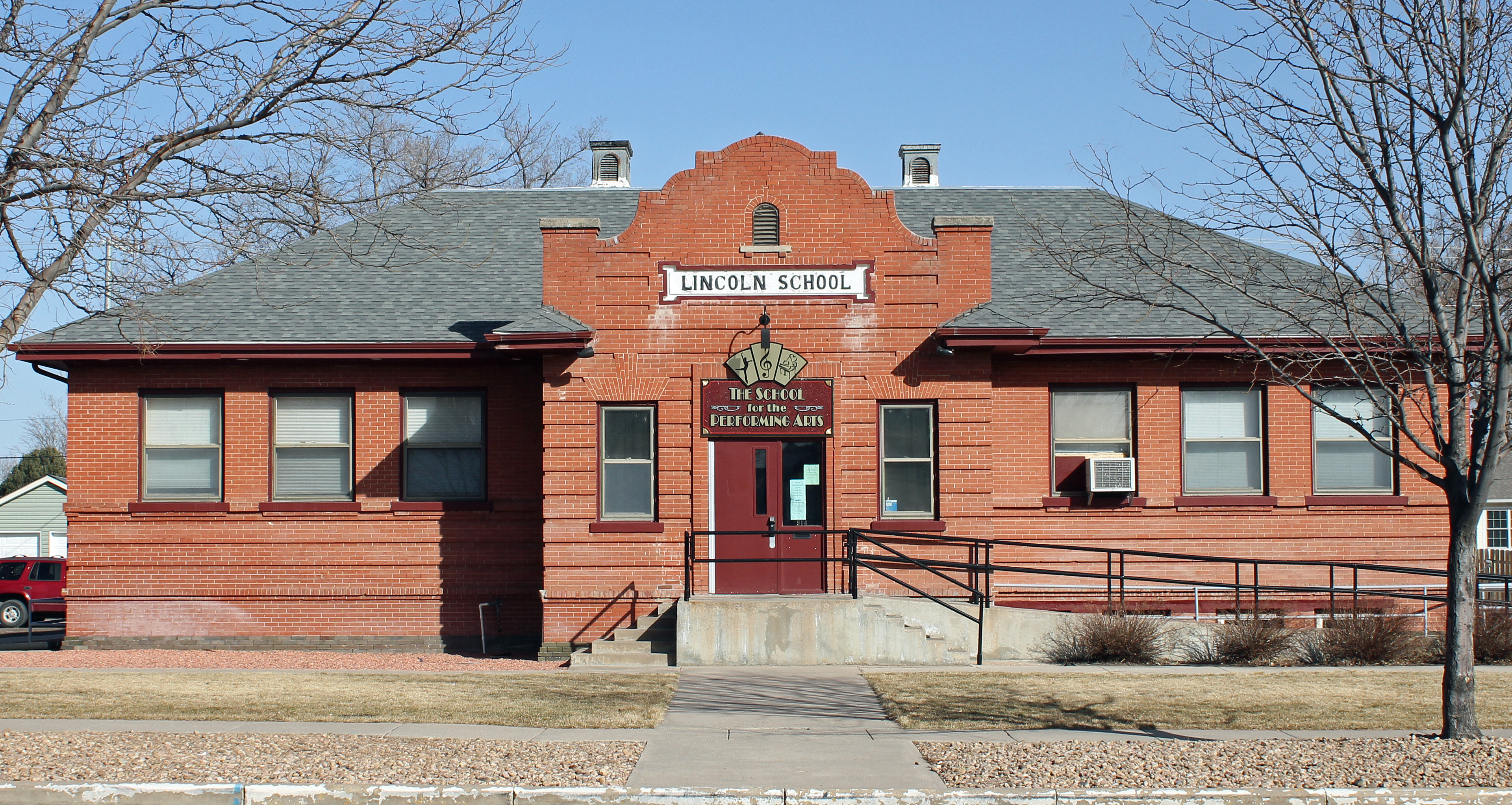 Lincoln School, located at 914 State Street in Fort Morgan, Colorado. The property is listed on the National Register of Historic Places and is now home to the School For The Performing Arts.